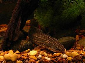 A female Polypterus bichir lapradei, at about 12" total length.